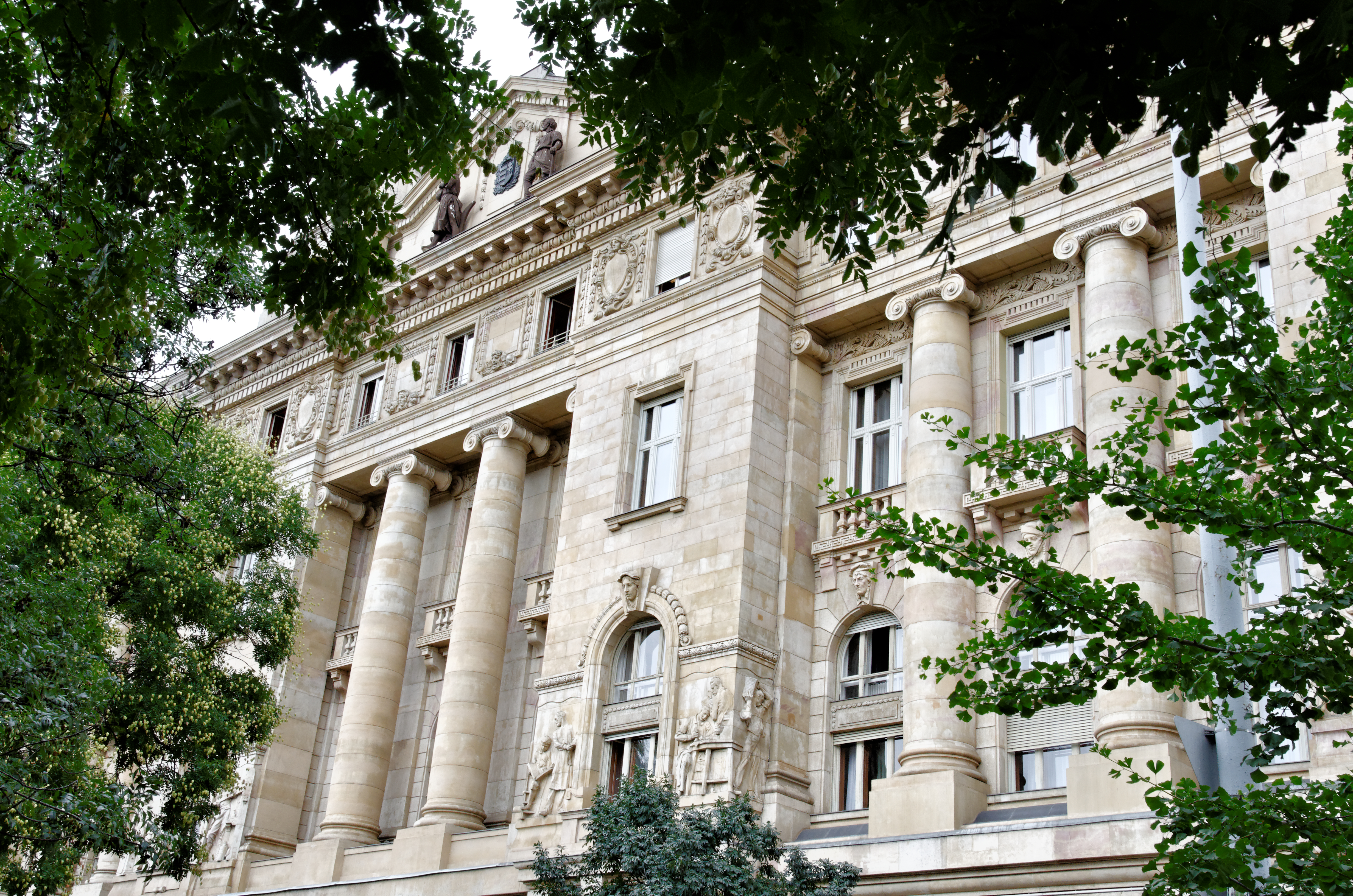 Magyar Nemzeti Bank